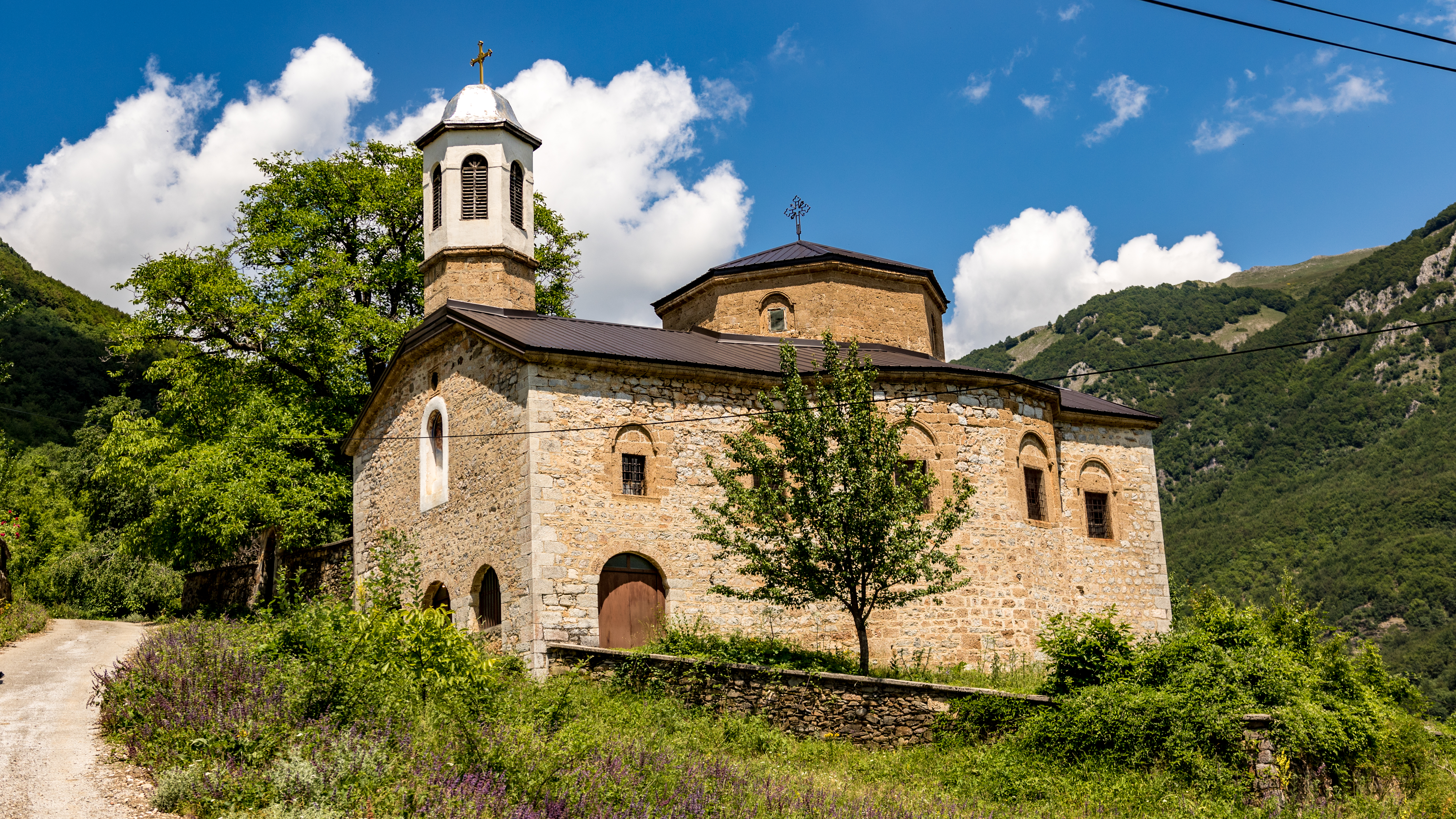 The main church in the village Selce